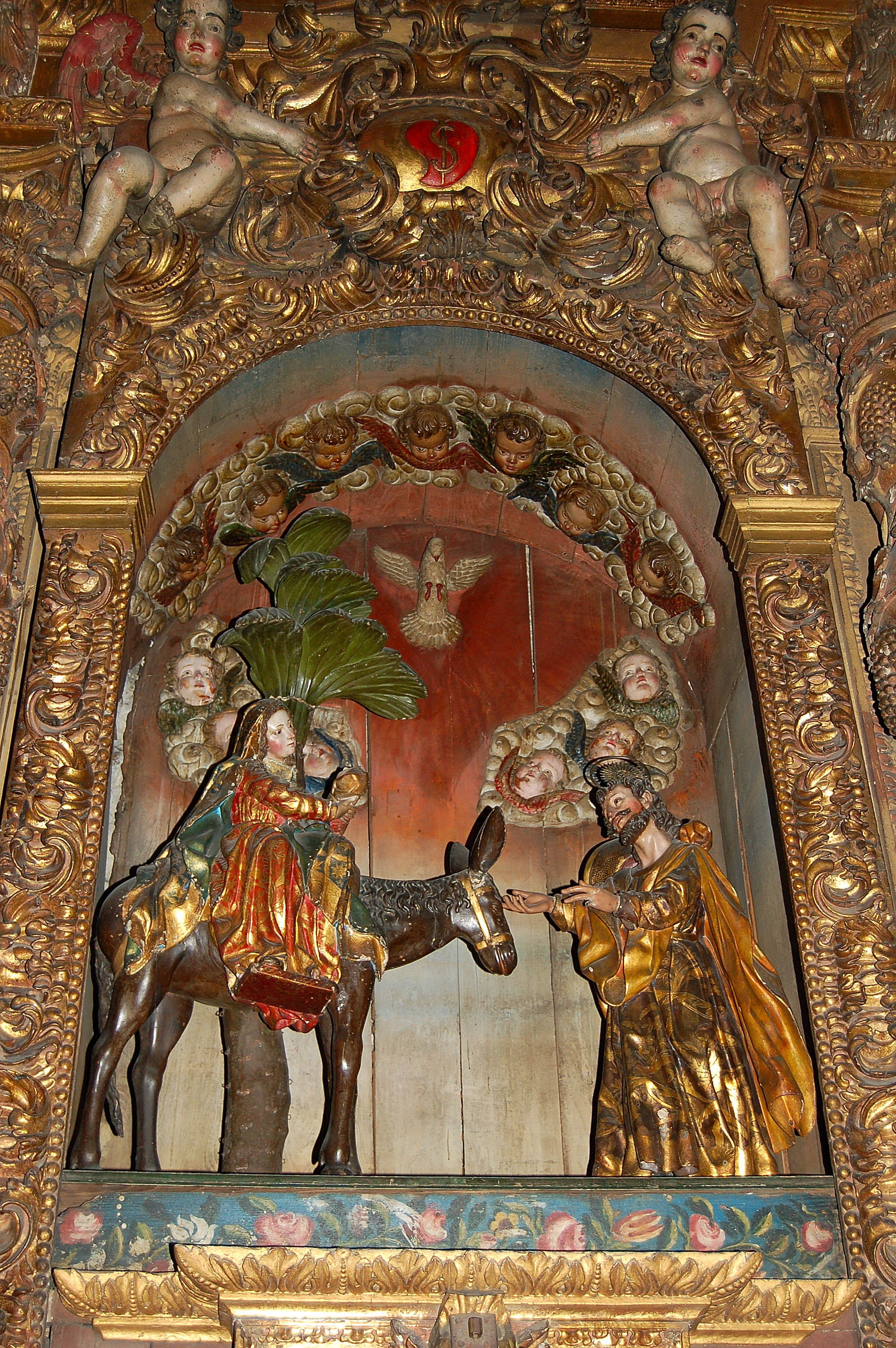 A Fuxida a Exipto na igrexa de San Paio de Antealtares en Santiago de Compostela